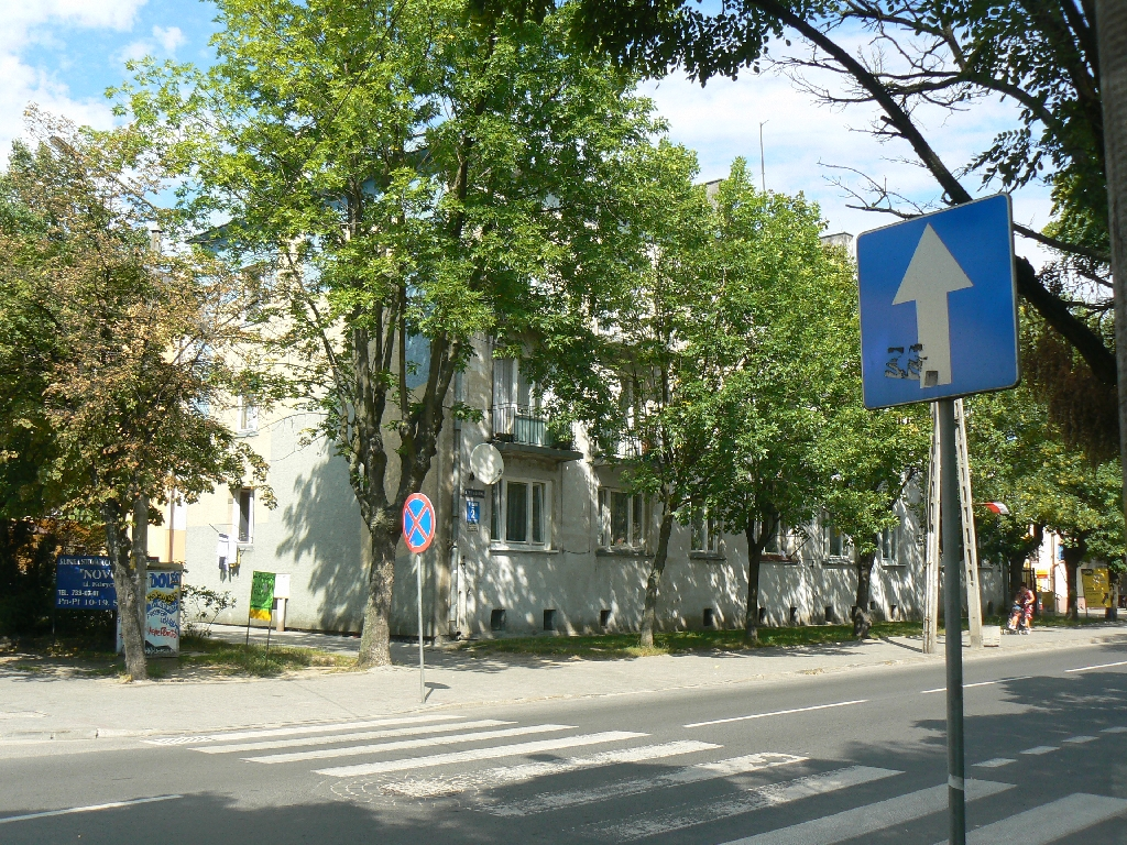 Apartment block, which is situated on a place of synagogue in Bełchatów (Poland)